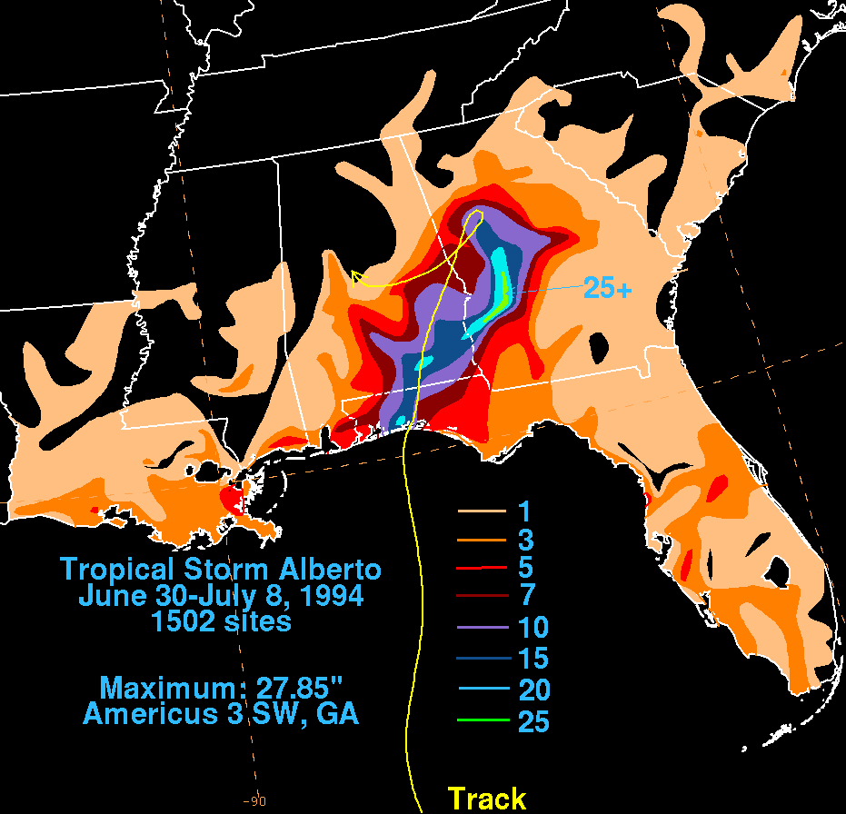 Storm total rainfall map of Tropical Storm Alberto during June and July 1994.